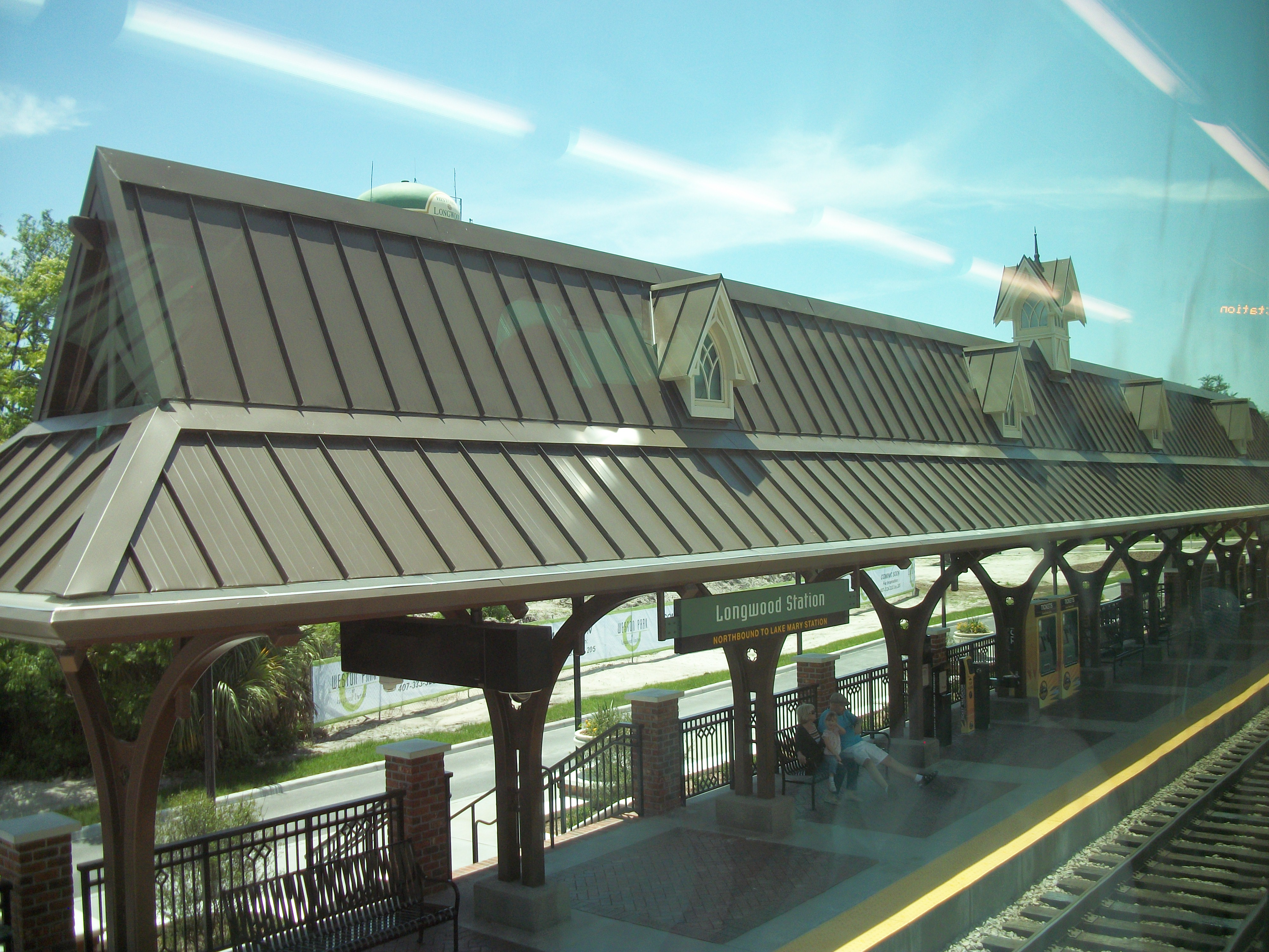 The Longwood SunRail station as seen from inside second level of a SunRail passenger car. More details to come.